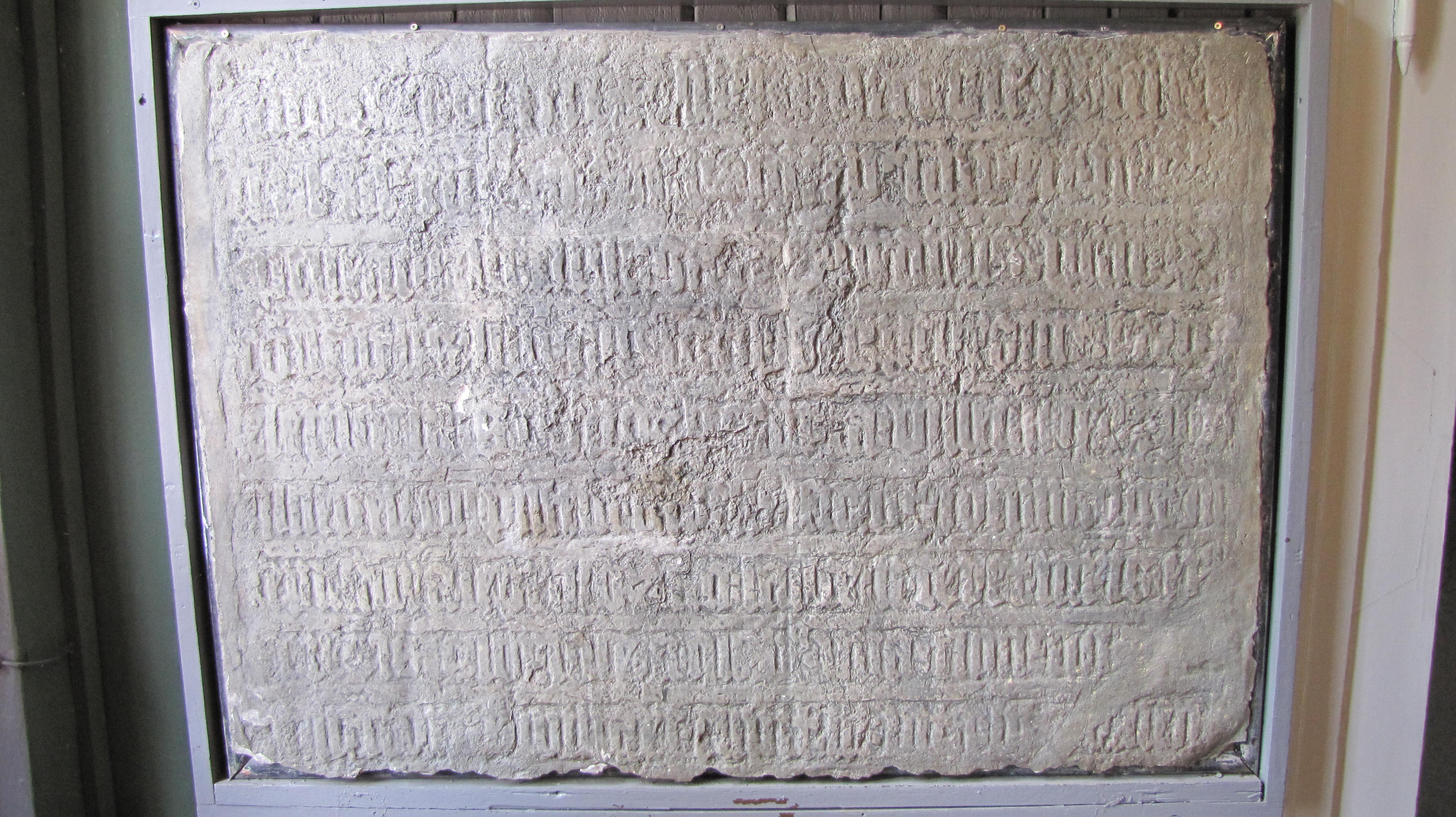 Plaster copy of dedication stone for the Siechenhaus vor Dassow, Volkskundemuseum Schönberg